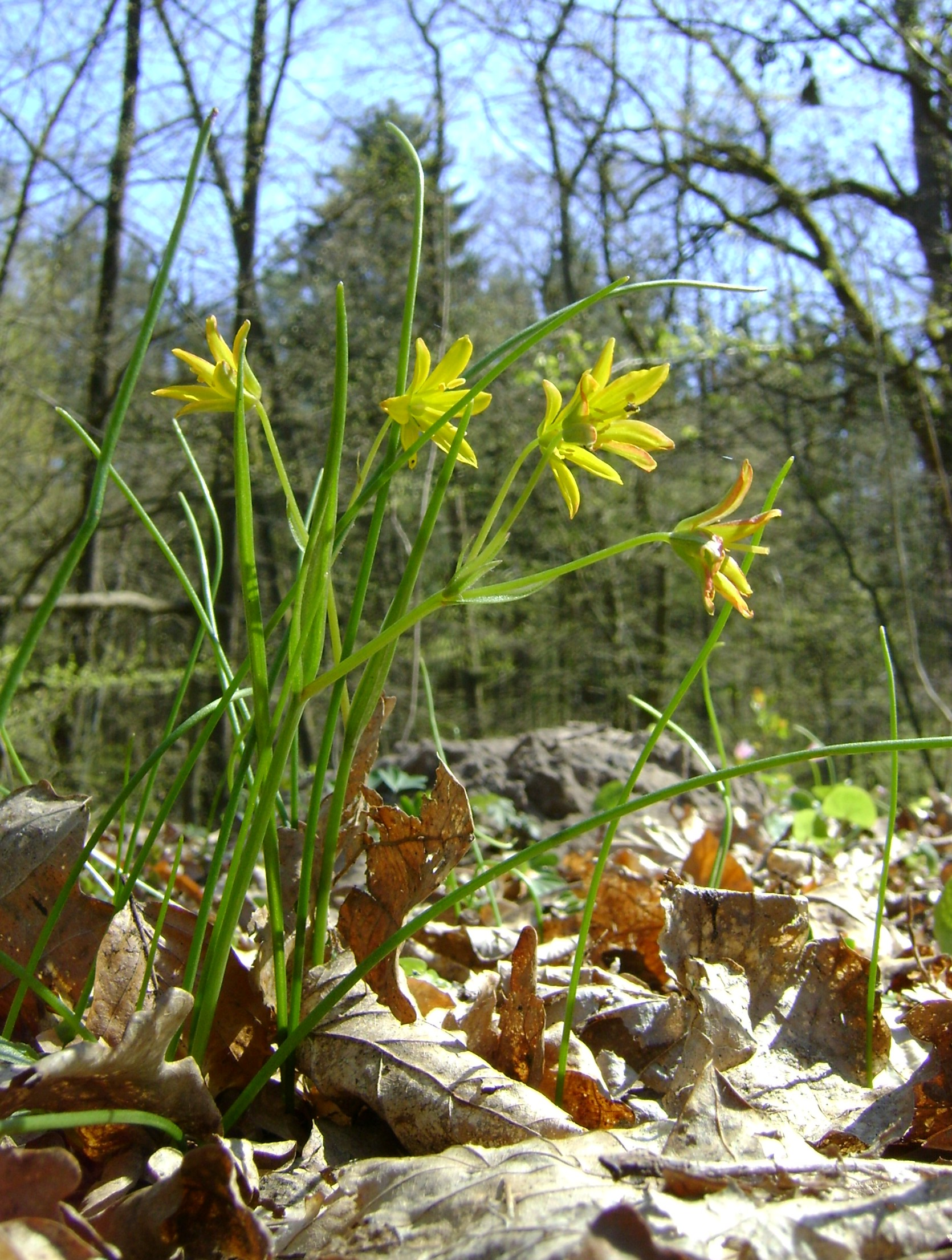 Gagea spathacea. On Parsęta river near Dygowo (NW Poland)